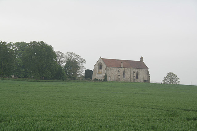 South Kyme Church View from the north east showing the elaborate East Window